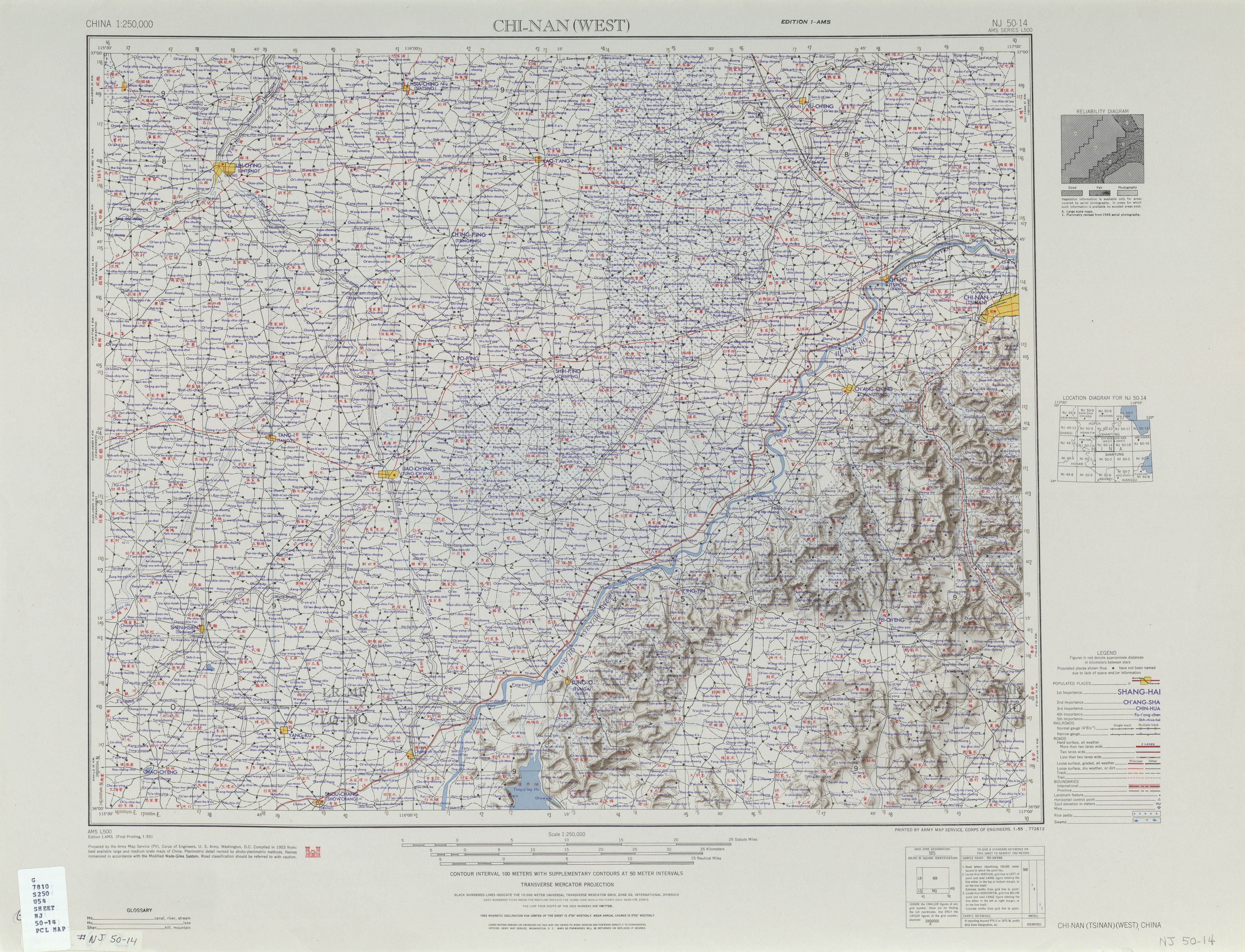 China AMS Topographic Maps